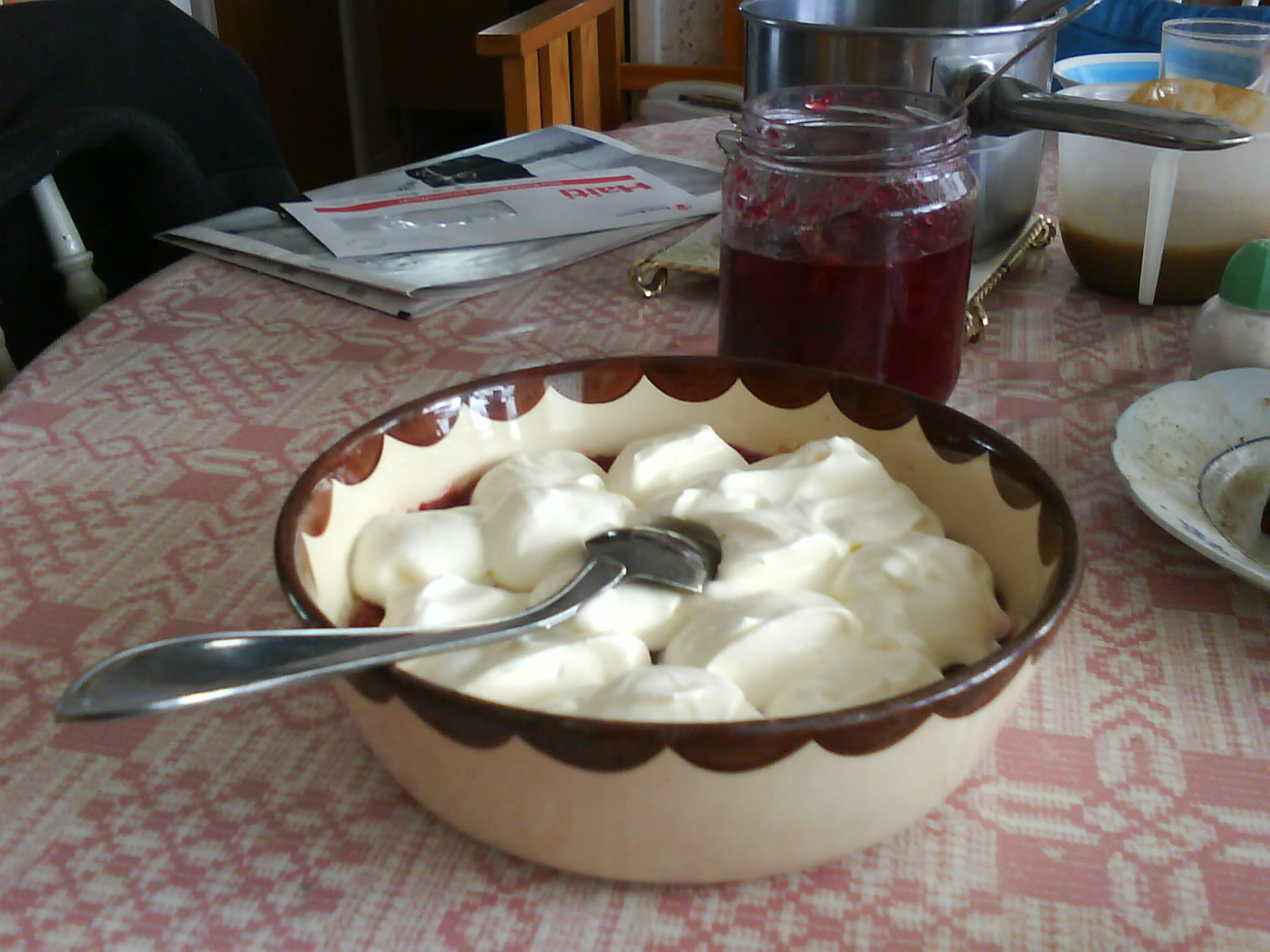 Picture of the dessert änglamat